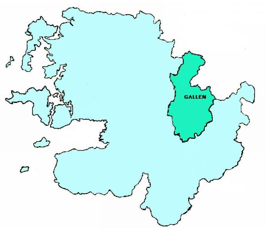 A map of Mayo with Gallen highlighted in the east